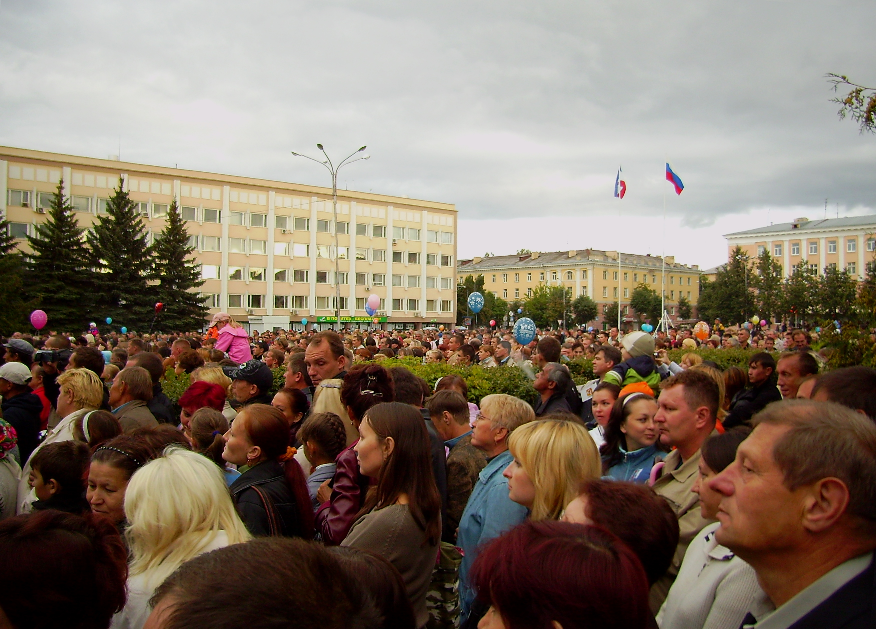 The population of Yoshkar-Ola on City Day, celebrating on August, 8th, 2009